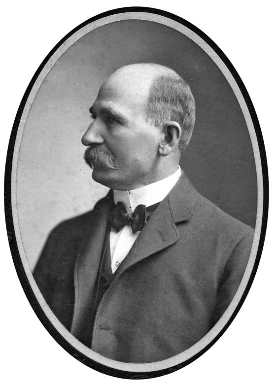 Image taken from